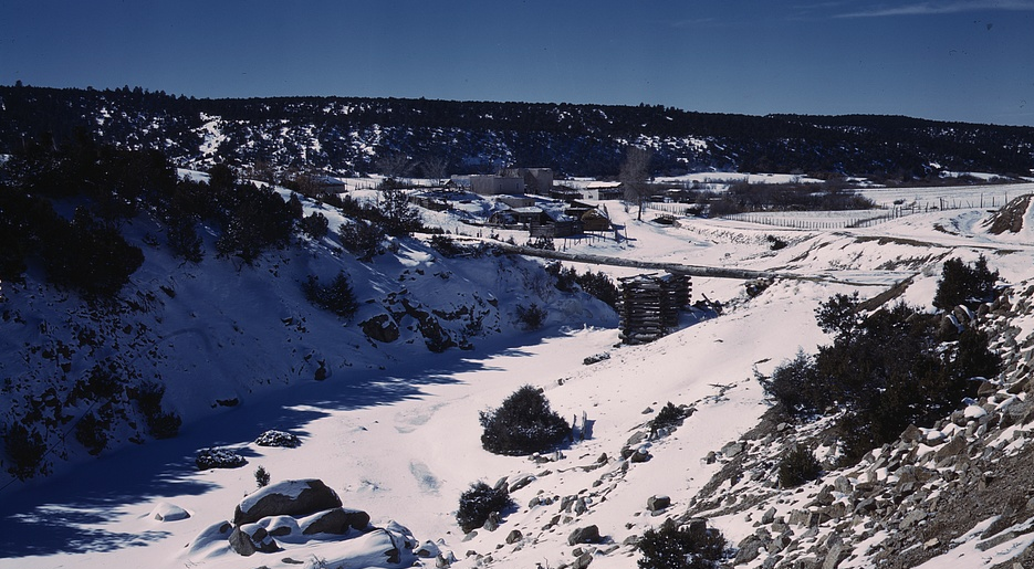 Title: "Trampas, Taos County, New Mexico, a Spanish-American village in the foothills of the Sangre de Cristo Mountains dating back to 1700 which was once a sheep raising center. Due to overgrazing and loss of range title, its inhabitants now work as migratory labor and at subsistence farming." View of Las Trampas and the Sangre de Cristo Mountains, Taos County, New Mexico (1943).